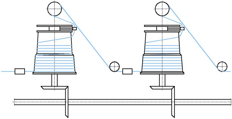 Principle of non-slip drawing macine